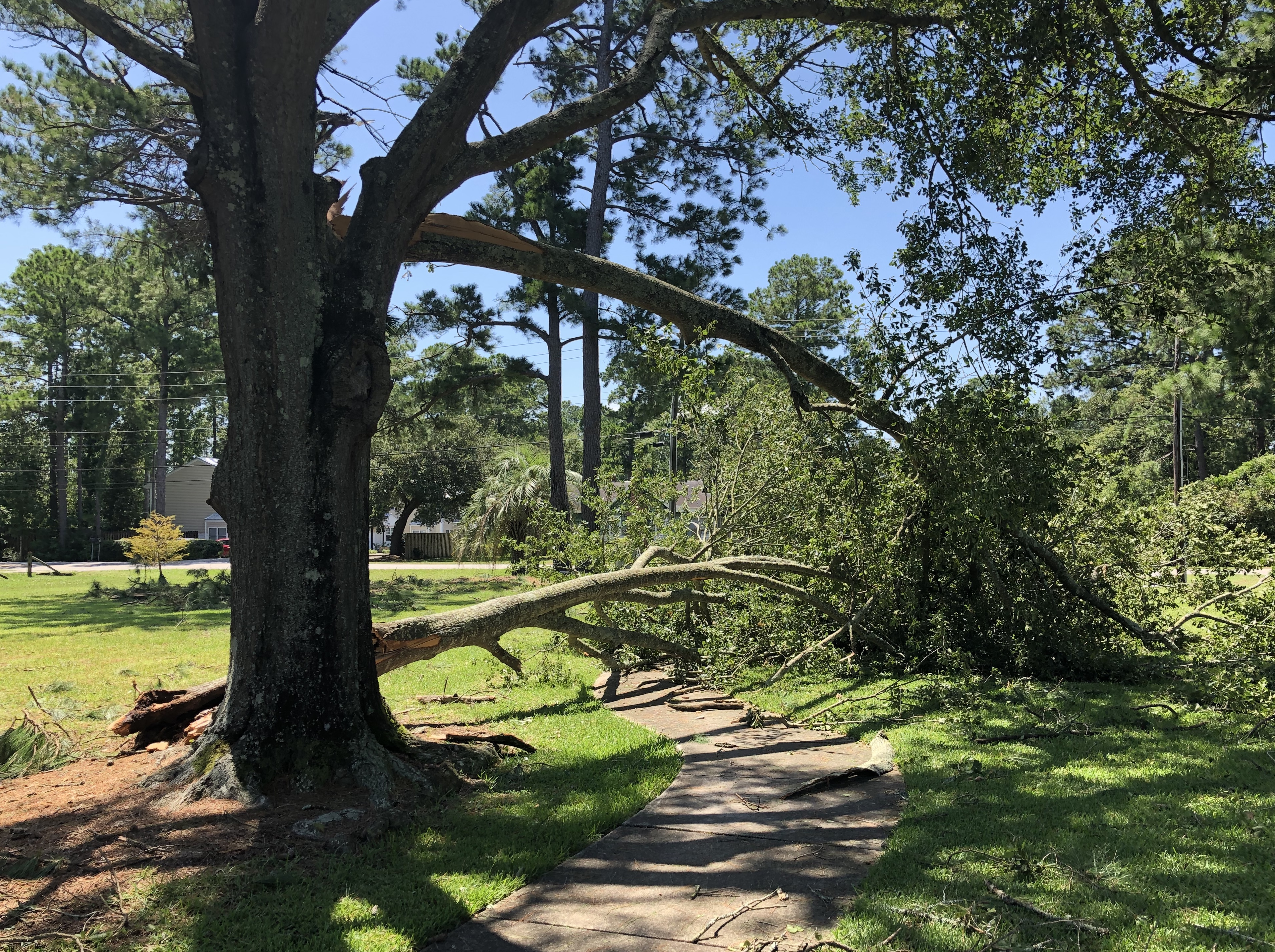 Tree downed by Isaias near Lullwater Drive, Wilmington, NC.